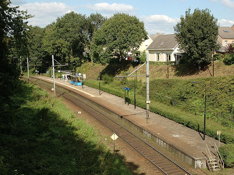 The railwaystation of Chevremont